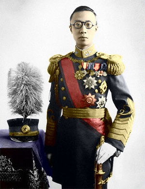 Puyi Emperor. Colorized picture.